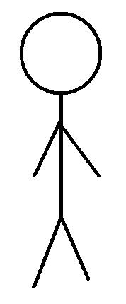 A drawing of a stick figure.